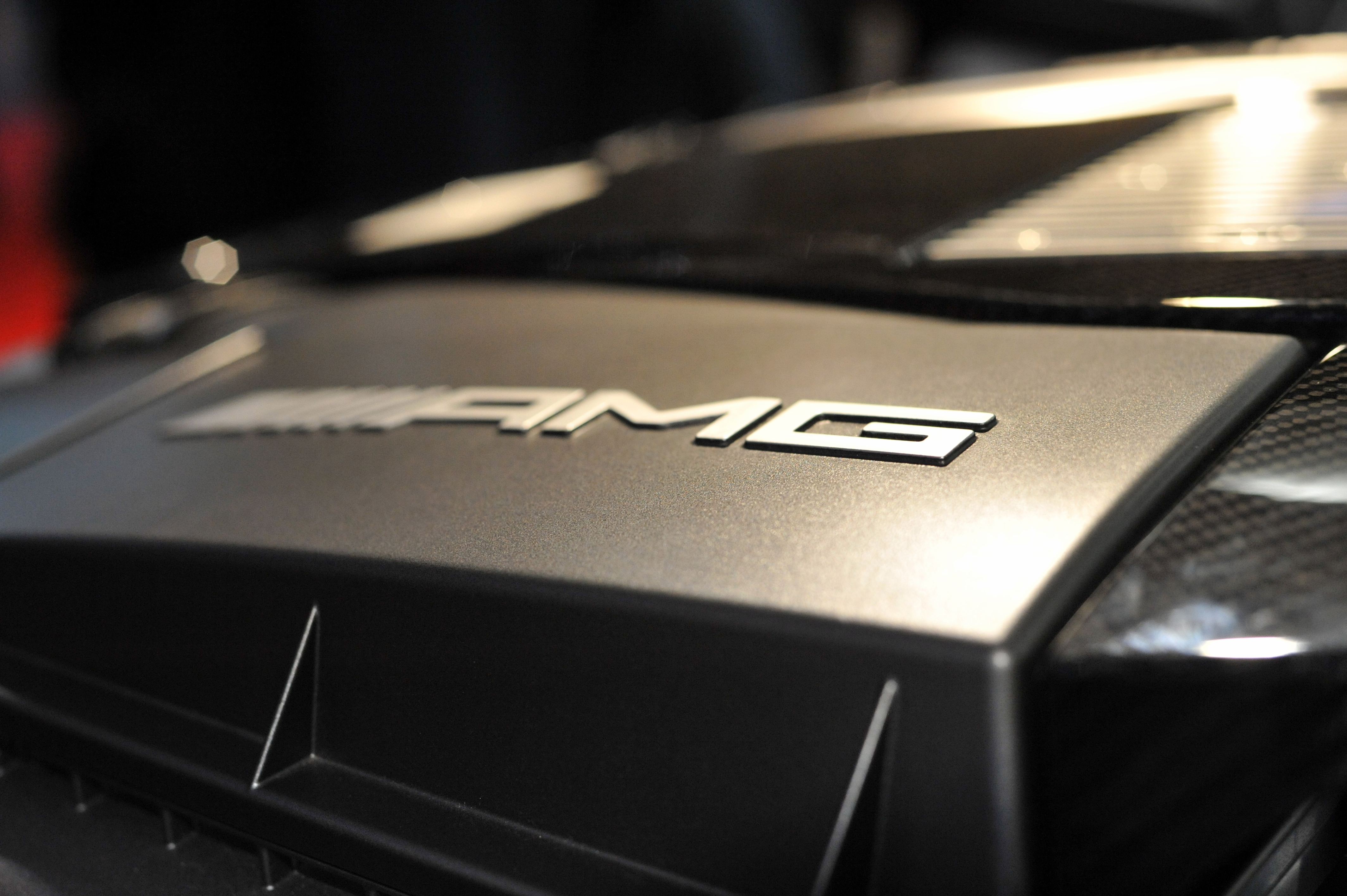 AMG air intake cover at the Geneva Auto Show 2011